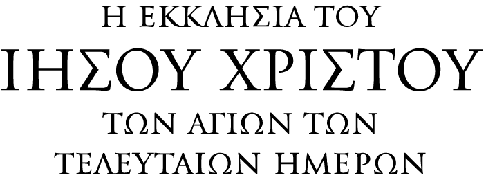 Logo of The Church of Jesus Christ of Latter-day Saints in Greek